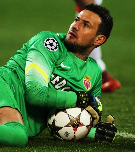 Danijel Subasić